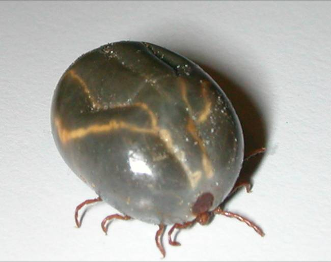 Haemophysalis longicornis (also called the Bush tick in Australia)